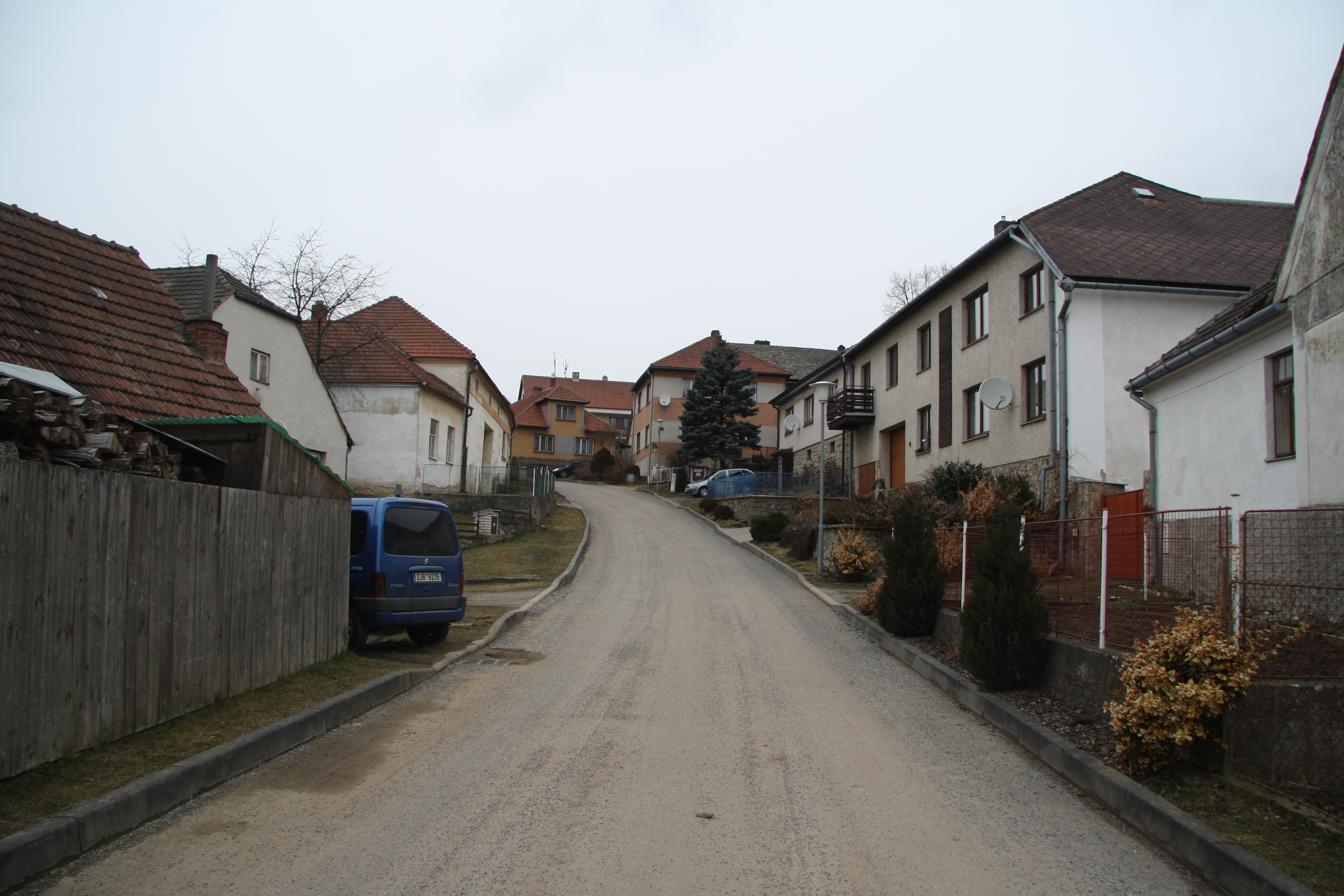 Center of Víska, Kněžice, Jihlava District.